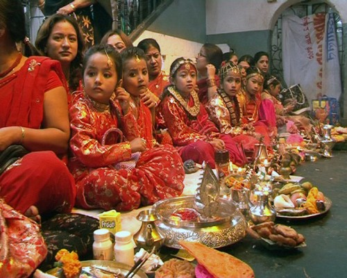 Female members perfom Bell bibaha